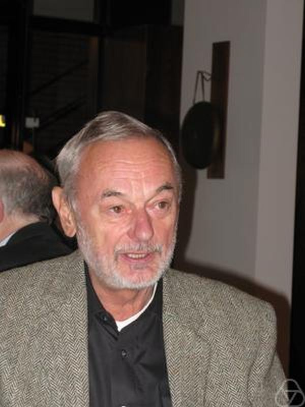 Gerd Fischer, Oberwolfach 2010